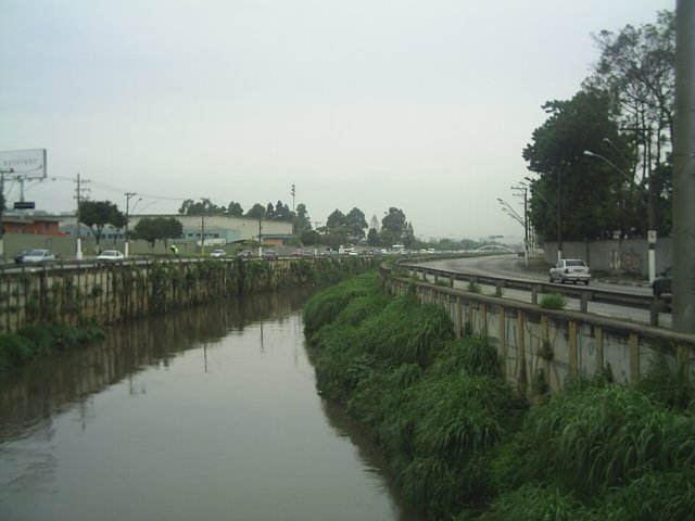 Tamanduateí River and State Avenue.